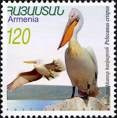 Flora and Fauna of Armenia - Pelecanus crispus